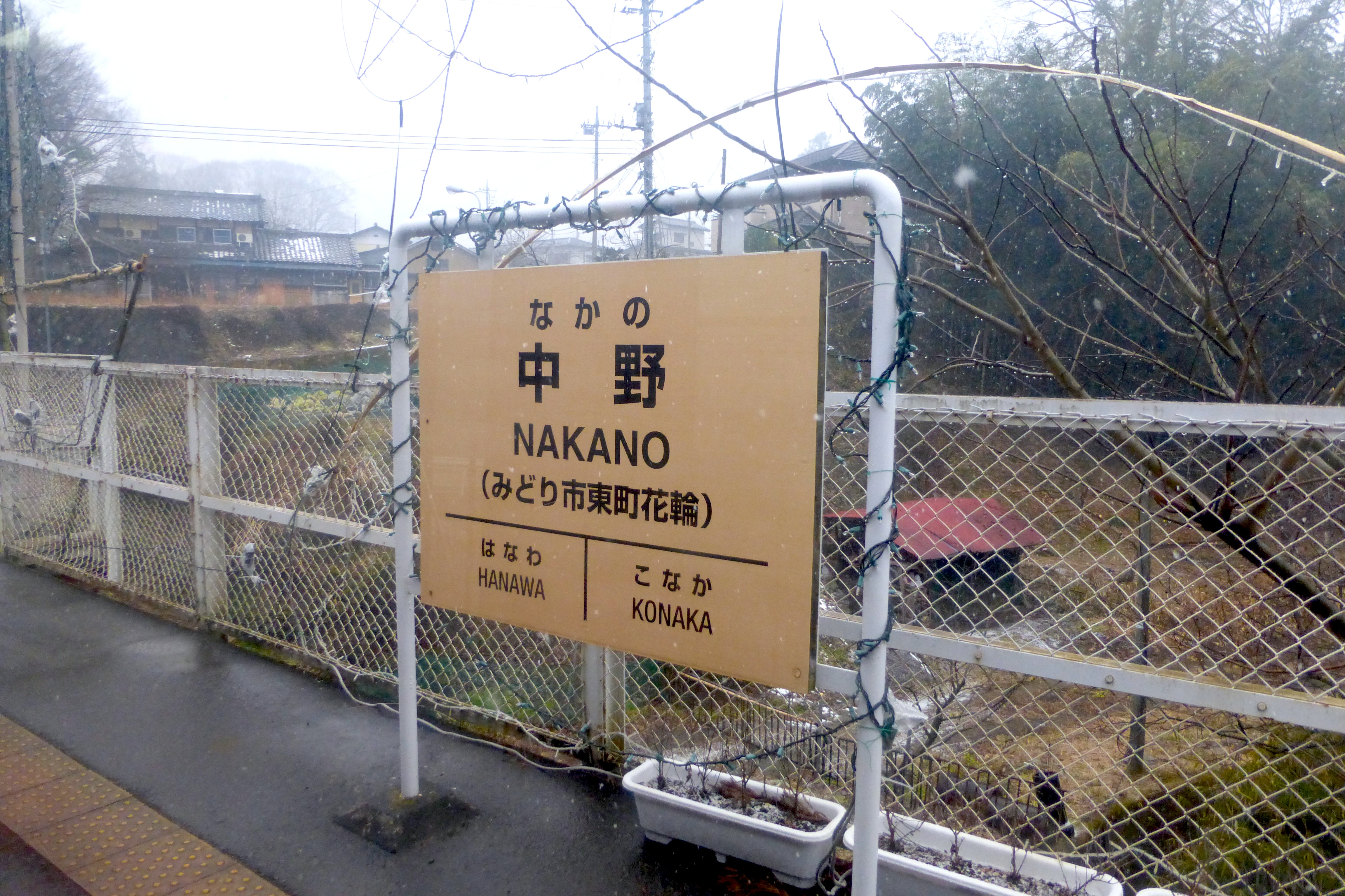 Nakano Station (中野駅 Nakano-eki) platform and sign, snowy/rainy day.